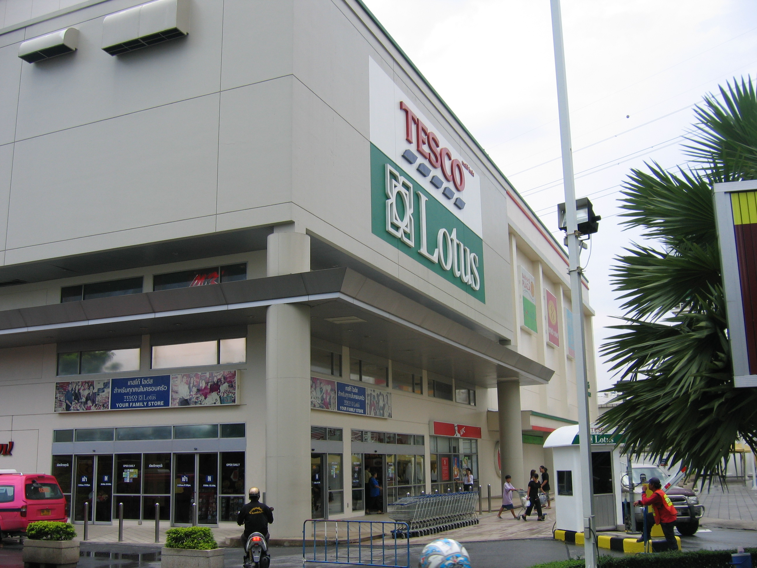 Tesco Lotus Pahonyonthin Branch